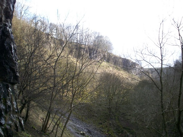 View of Deep Dale from Thirst House cave Superb limestone dale as viewed from one of the most impressive freely accessible caves in Derbyshire.